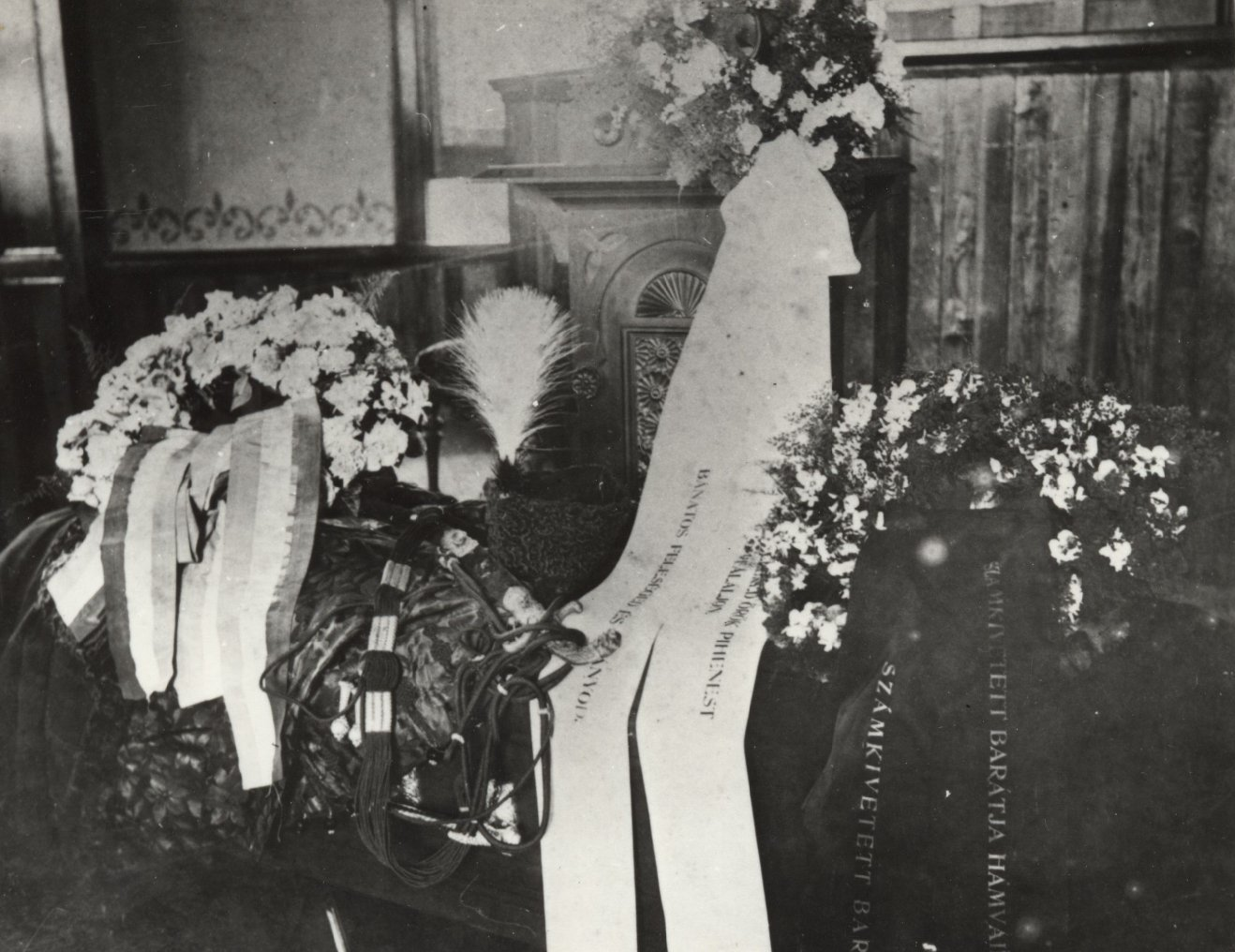 Bier Ferenc Sima (Fairport - Ohio, USA)